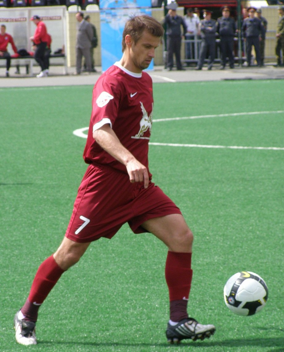 Sergei Semak in action for FC Rubin